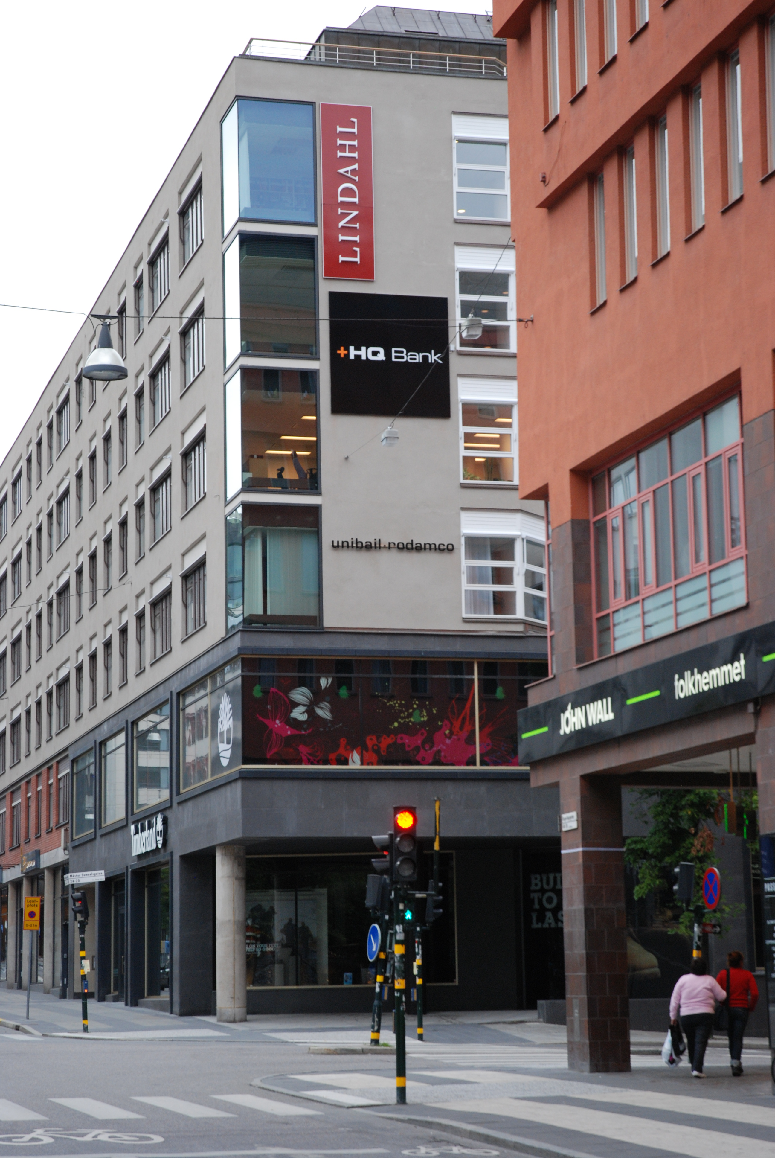 HQ Bank Head Quarters Regeringsgatan/Mäster Samuelsgatan, Stockholm Sweden